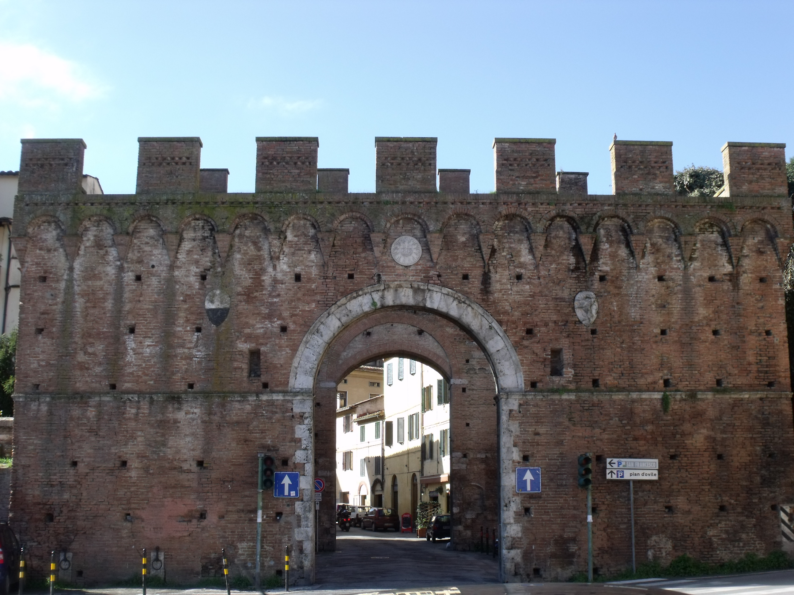 Facade of Porta Ovile, City Gate in Siena